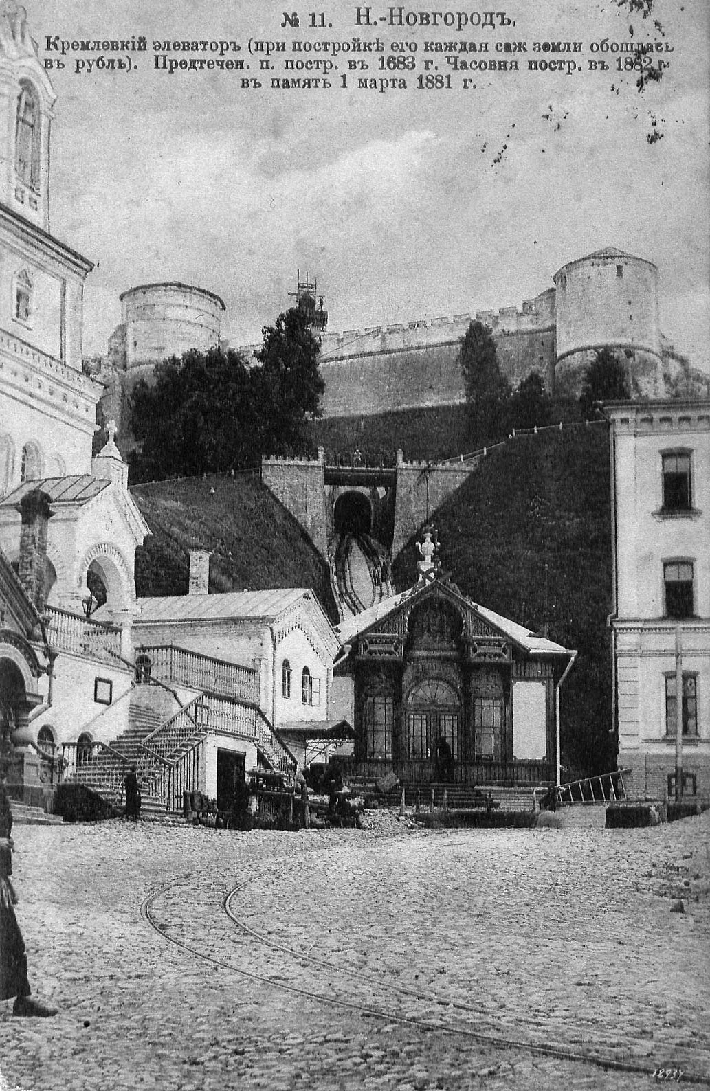 Funicular in Nizhny Novgorod.